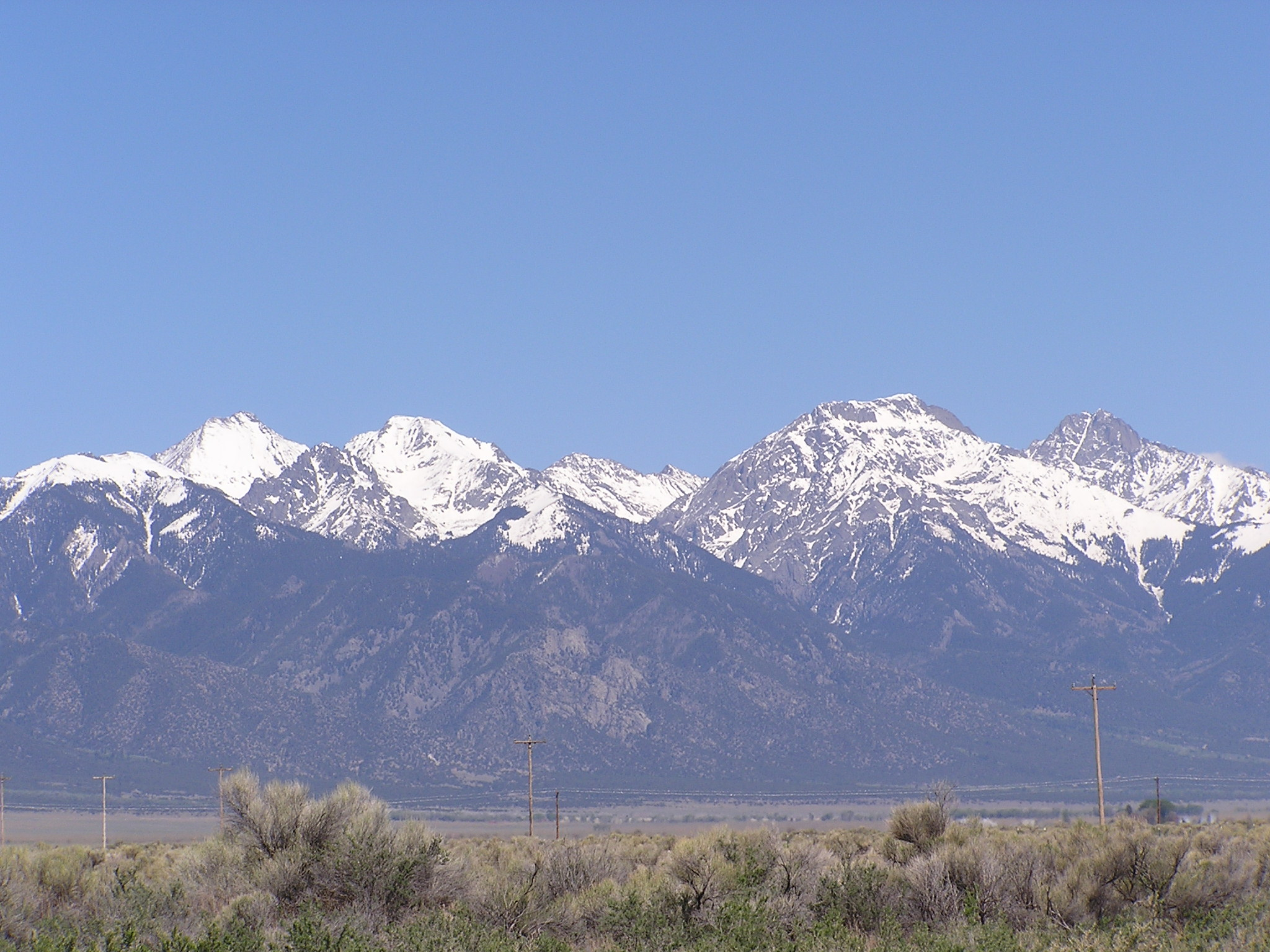 Mount Adams, Colorado. Taken from milepost 109 along C-17, three miles north of Moffat. Mount Adams (13,941') is one of Colorado's highest non-14ers.